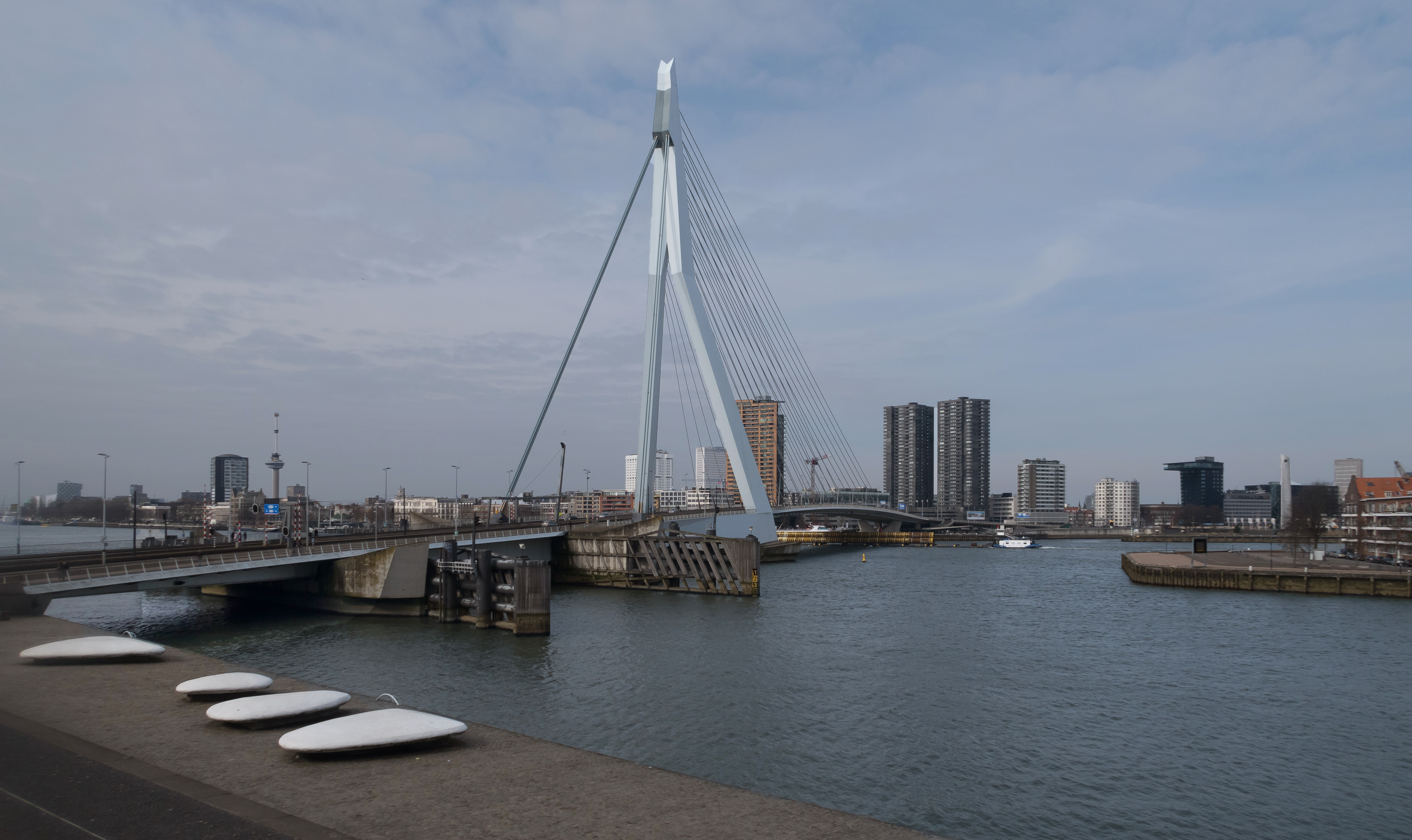 Rotterdam, bridge (de Erasmusbrug) from the Wilhelminakade